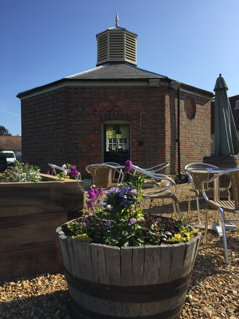 The Pump House at Royal Clarence Yard, Gosport